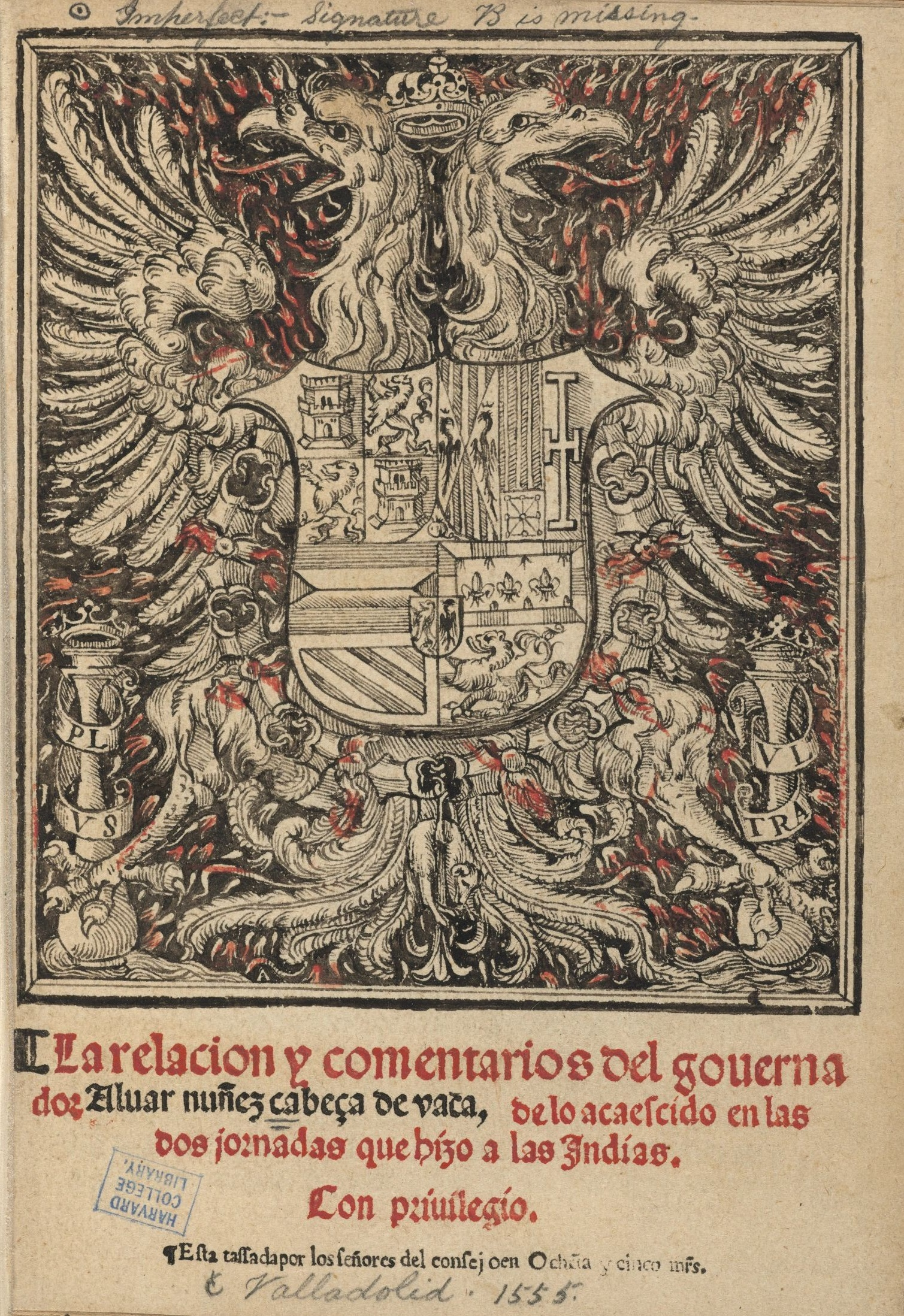 Title page: La relacion y comentarios del gouerna, 1555. The first part of this book narrates the expedition of Narváez to Florida in 1527 and the subsequent wanderings of the survivors. It was first published at Zamora in 1542. US 2415.3*, Houghton Library, Harvard University